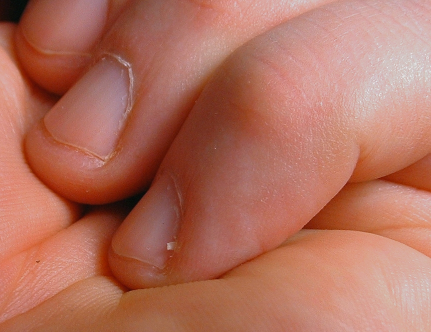 Hangnail on pinkie of left hand